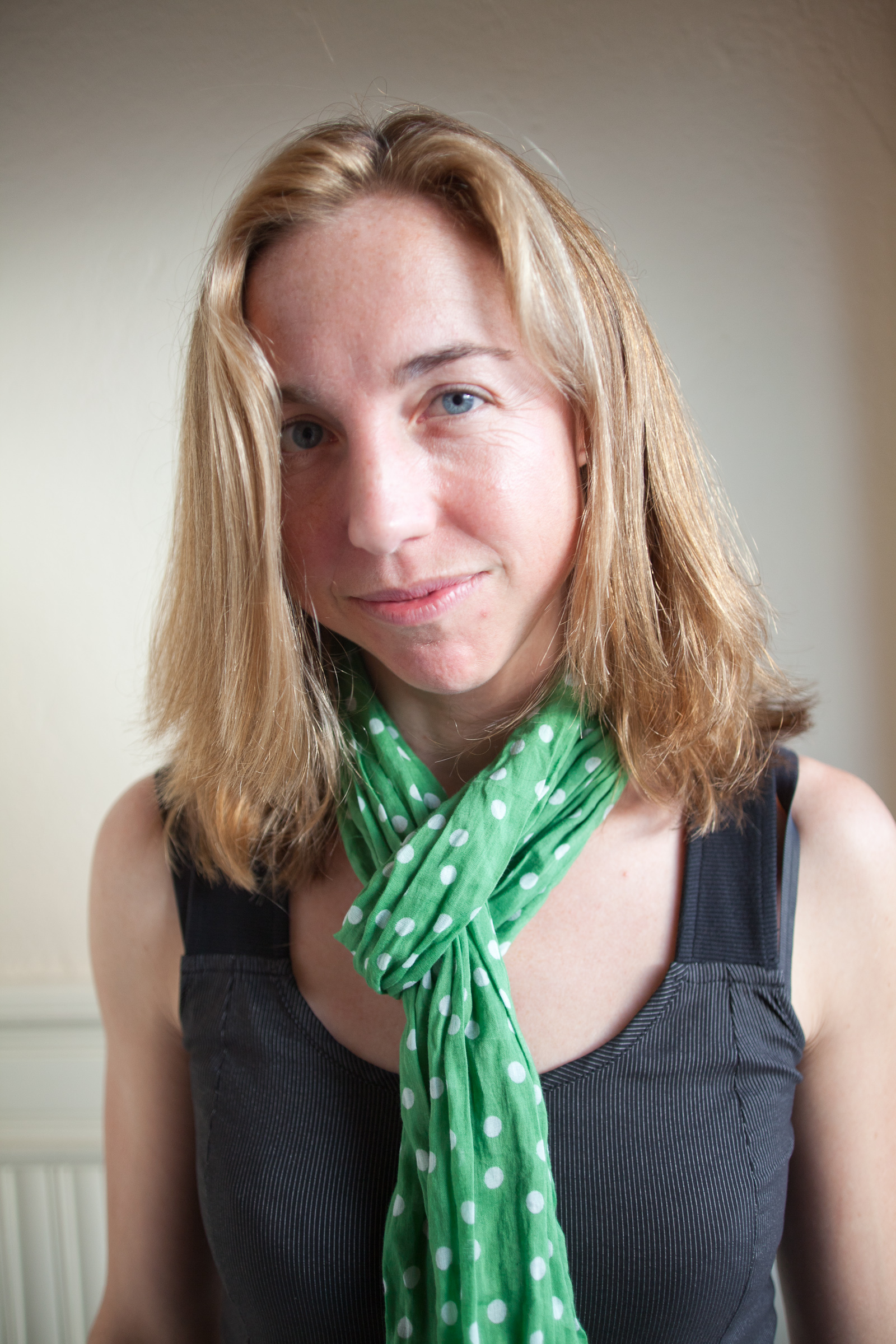 Elizabeth Dunn - PopTech 2011 - Camden Maine USA